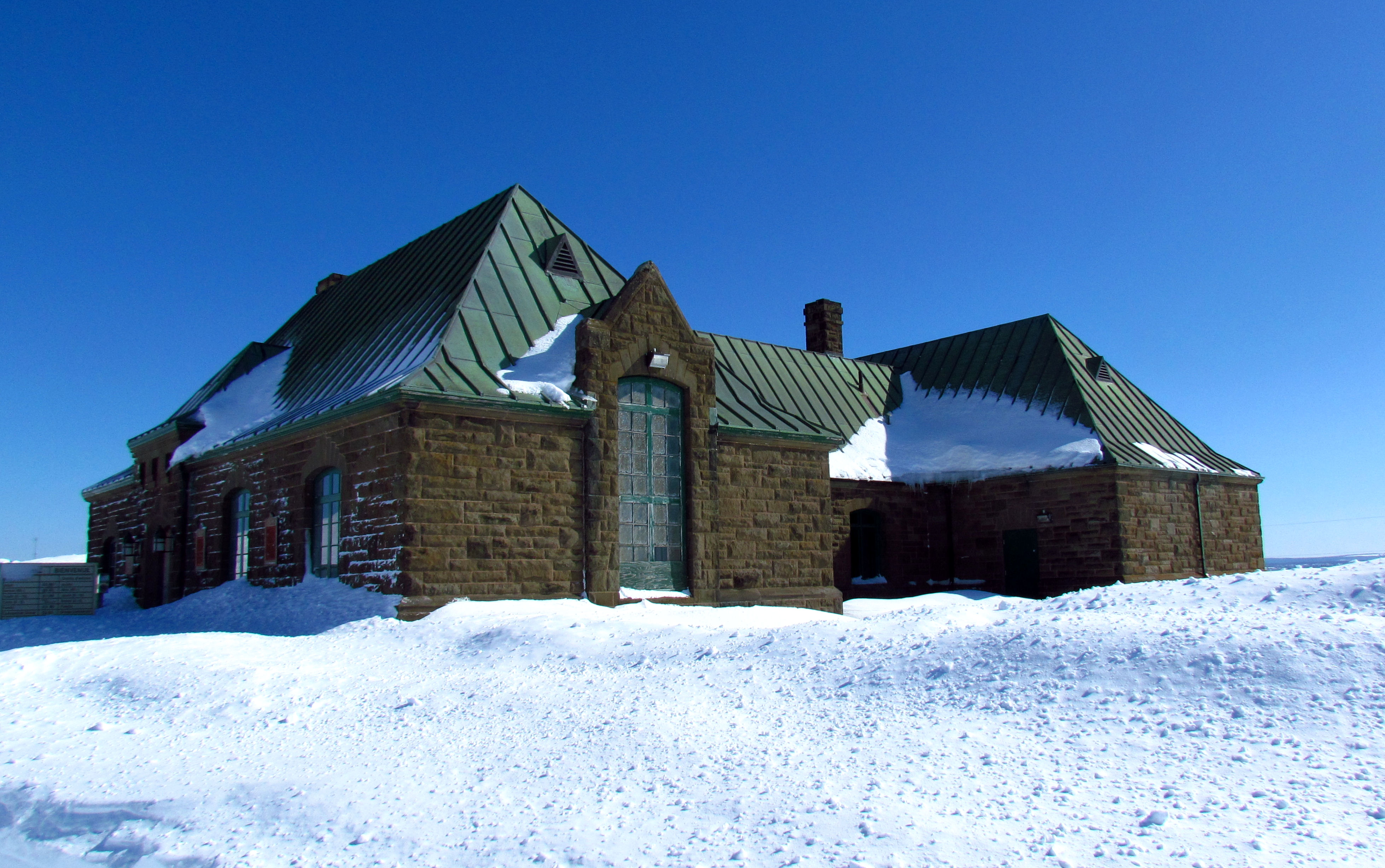 Fort Beauséjour, Aulac, New Brunswick, Canada